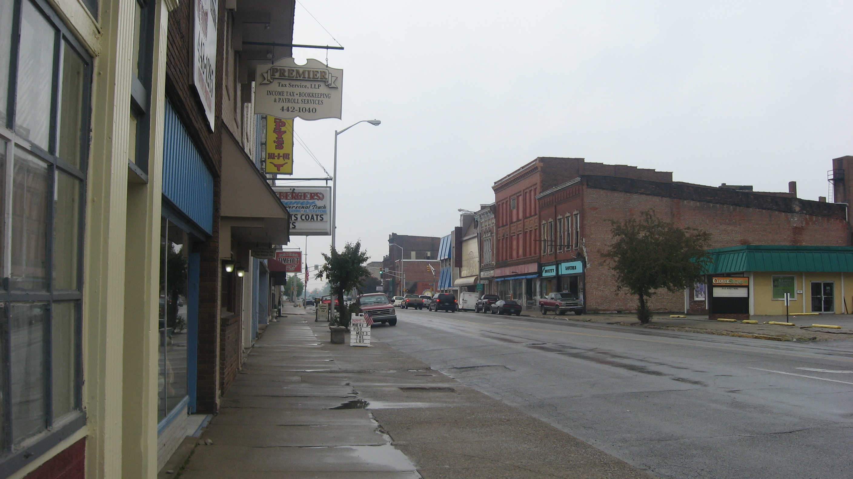 Looking west from the southern side of the 100 block of W. National Avenue (U.S. Route 40) in downtown Brazil, Indiana, United States. This portion of the downtown is part of the Brazil Downtown Historic District, a historic district that is listed on the National Register of Historic Places.